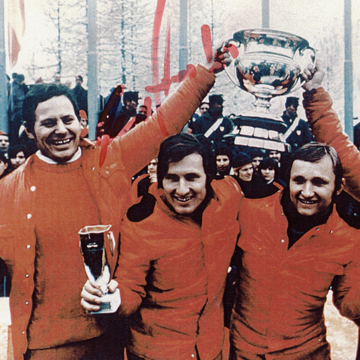 Swiss Olympians - picture taken 1971 in Cervina IT